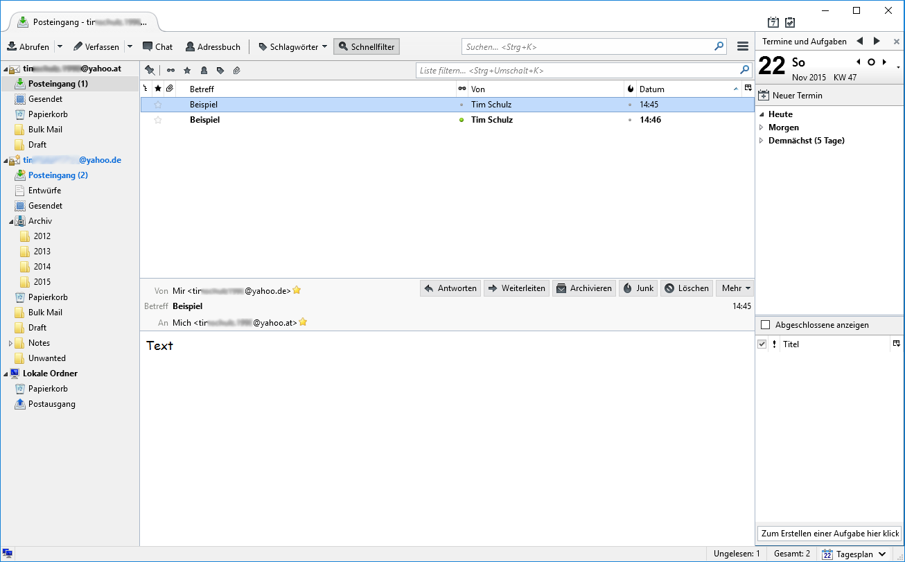 Mozilla Thunderbird 38.3.0 running on Windows 10